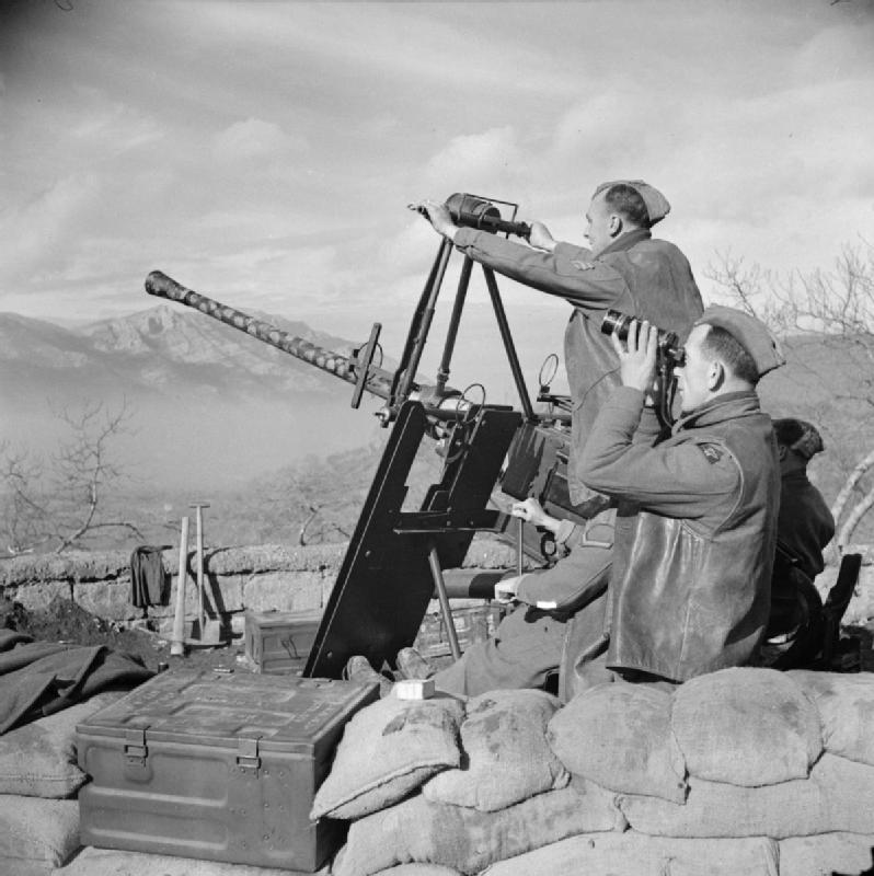 The British Army in Italy 1944 40mm Bofors gun of 579 Battery, 115 LAA Regiment, 7 January 1944.